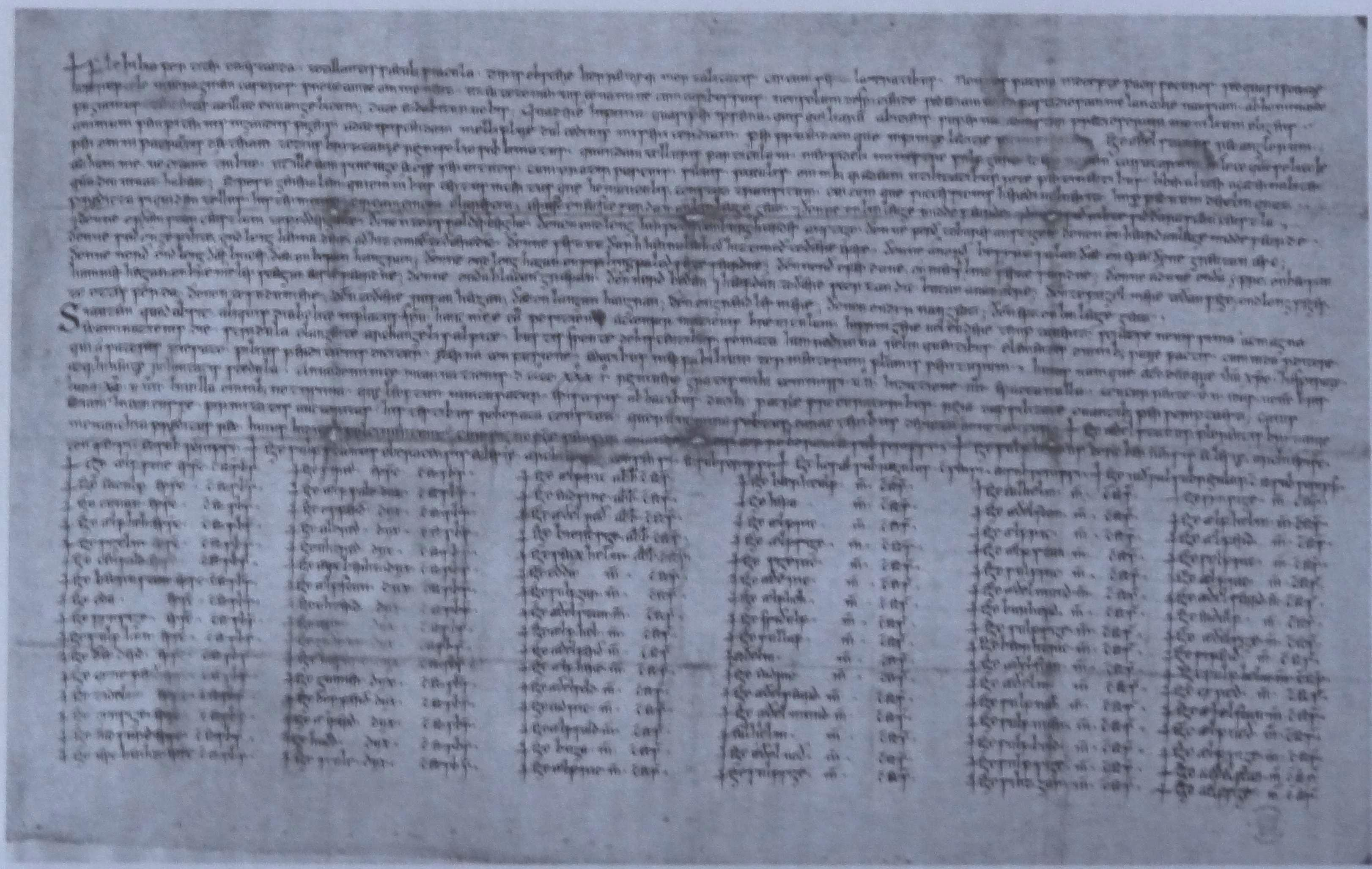 Charter S 416 dated 931 of King Æthelstan for Wulfgar written by Æthelstan A